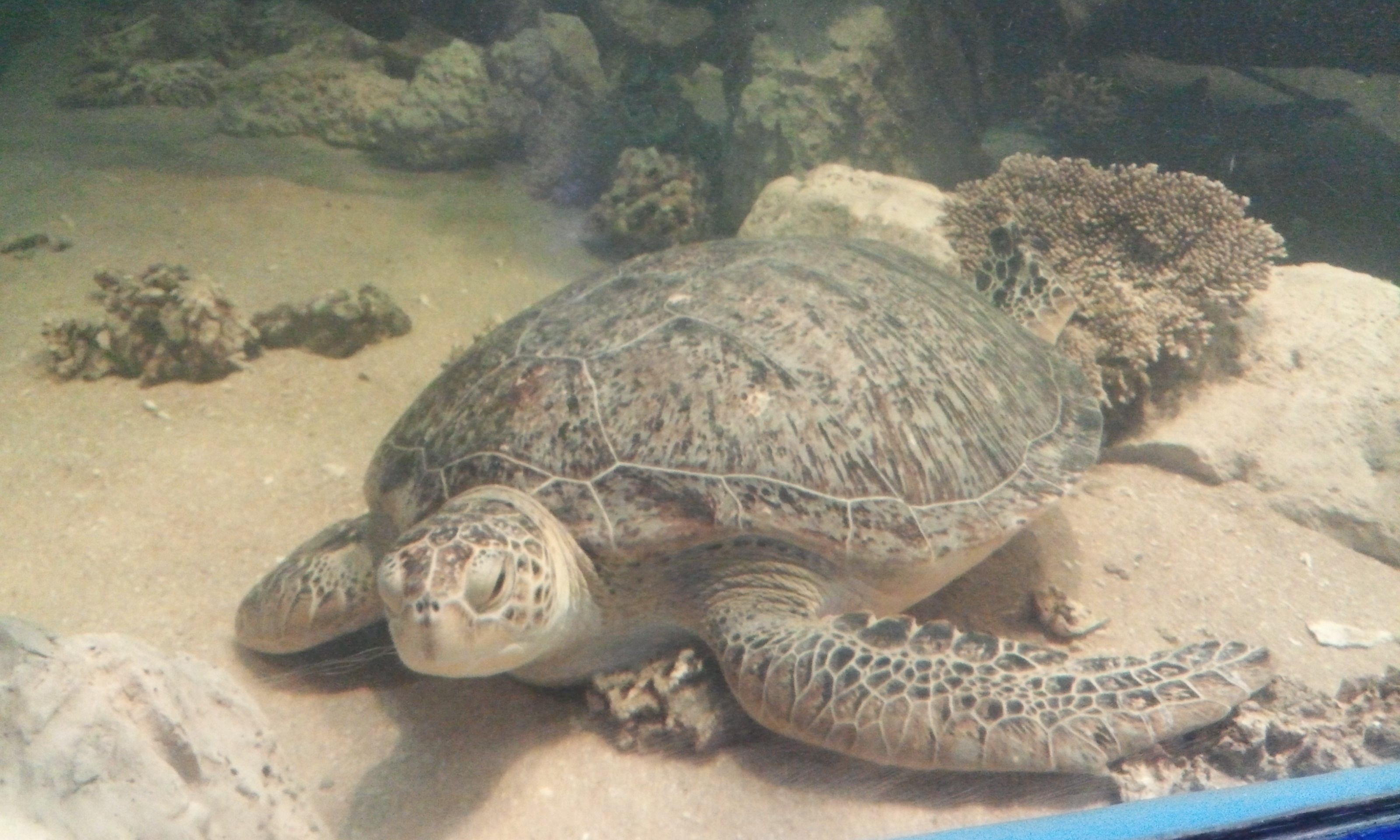 Thuỷ cung Đầm Sen 2013